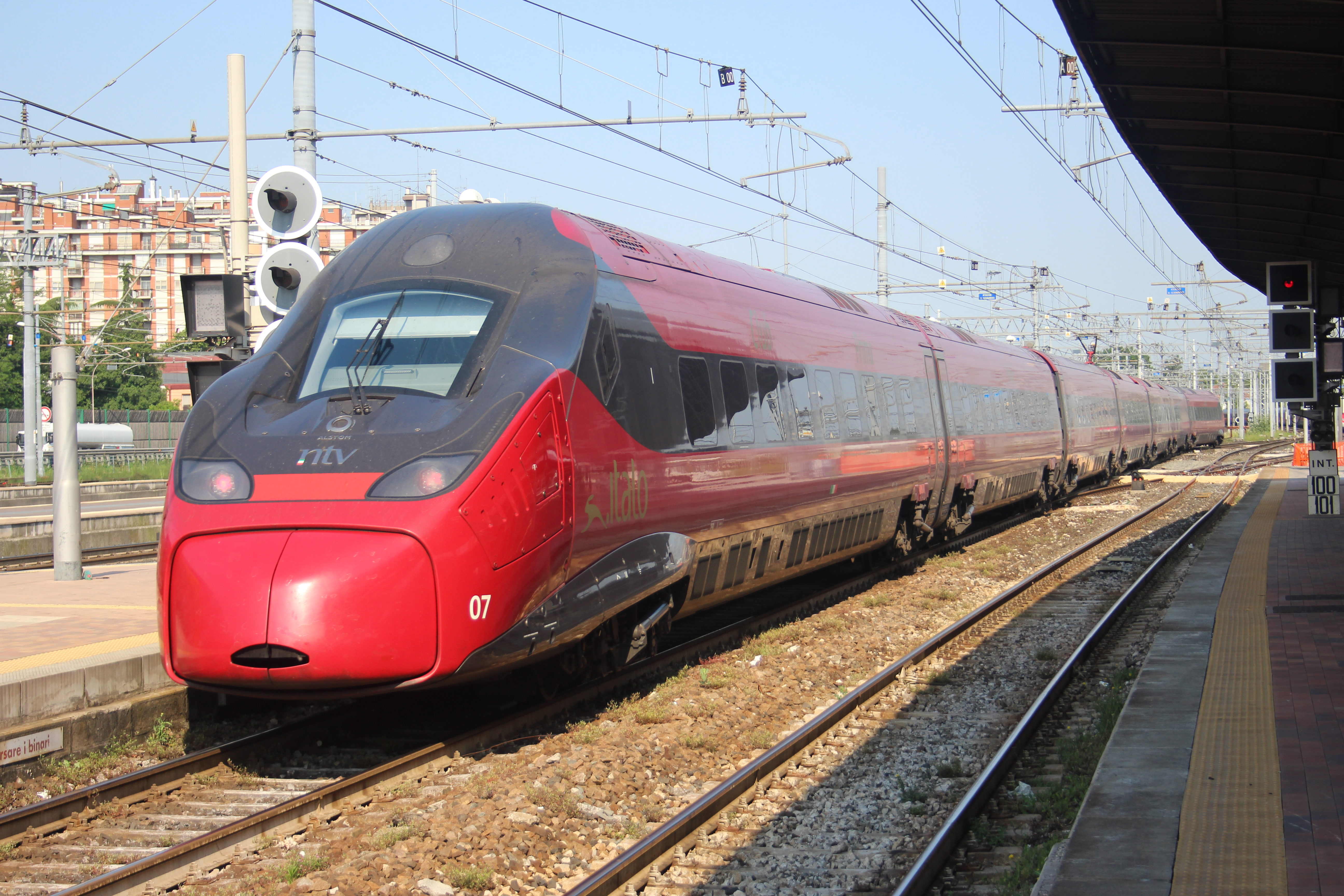 A modern 155mph/250kph capable NTV .italo Pendolino EVO trainset departing Venezia-Mestre station, on one of the high-speed services operated by the private operator, .italo. Despite being a Pendolino, this train does not tilt, due to a reliance on high-speed lines.